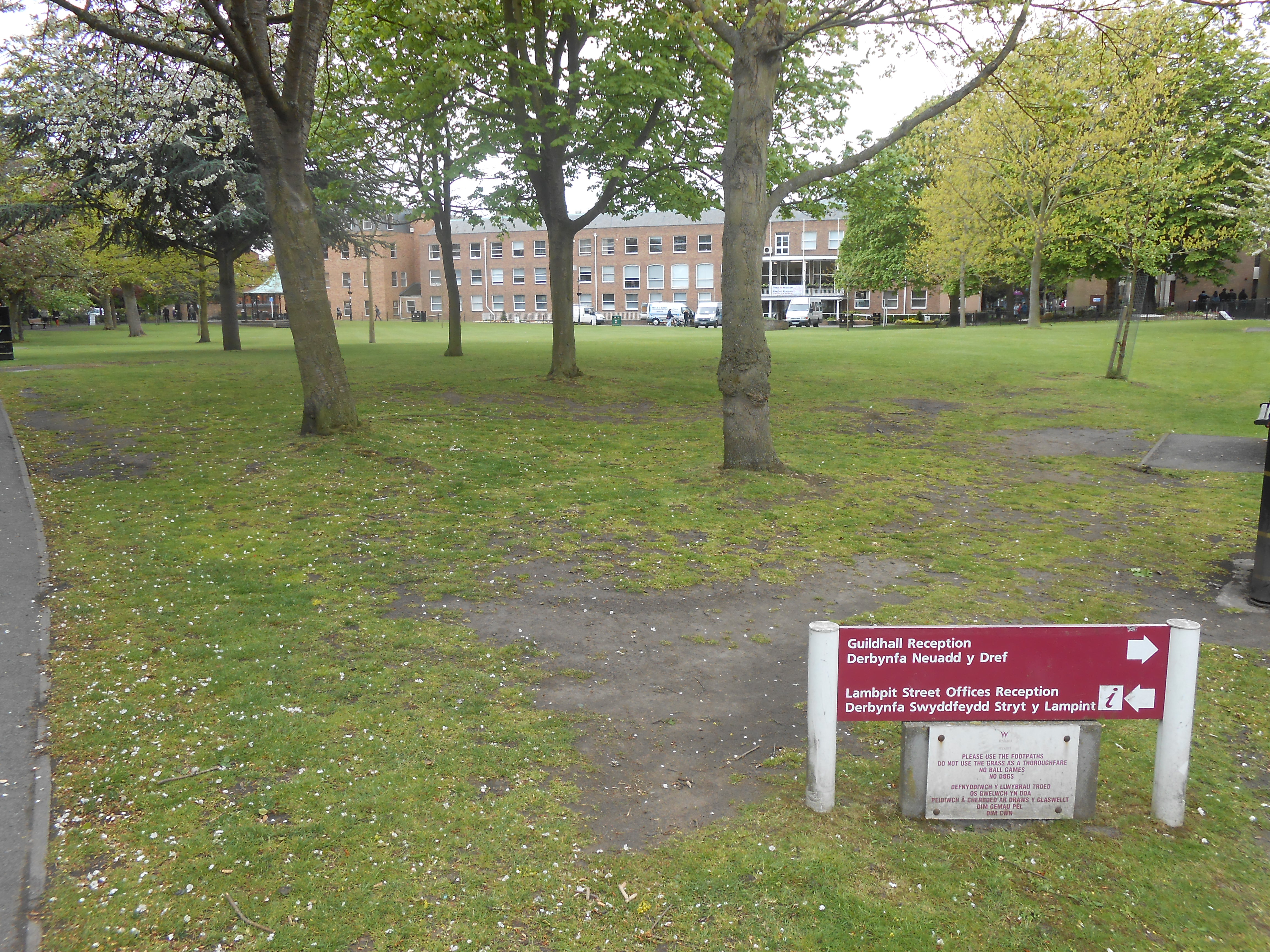 Llwyn Isaf, Wrexham, Wales.